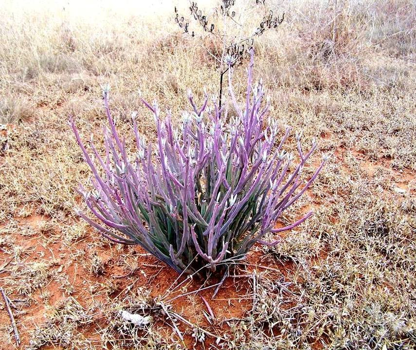 Kleinia longiflora on a smallholding near Pietersburg, Limpopo